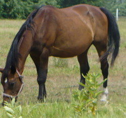 A picture of Whiskey, who is a "Kisbéri félvér" gelding.